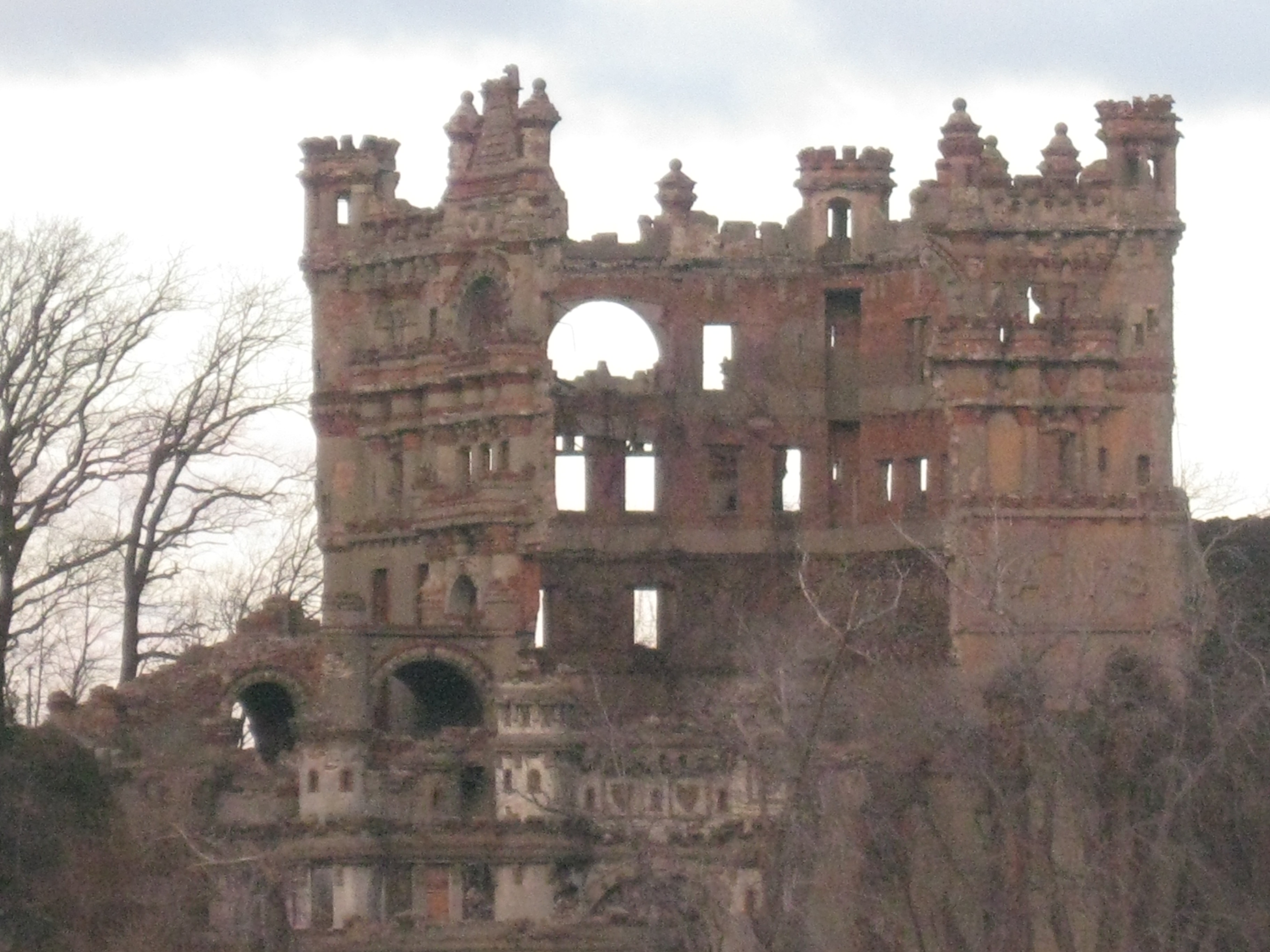 This is a photo I took from shore of the collapsed wall on the Bannerman Castle.